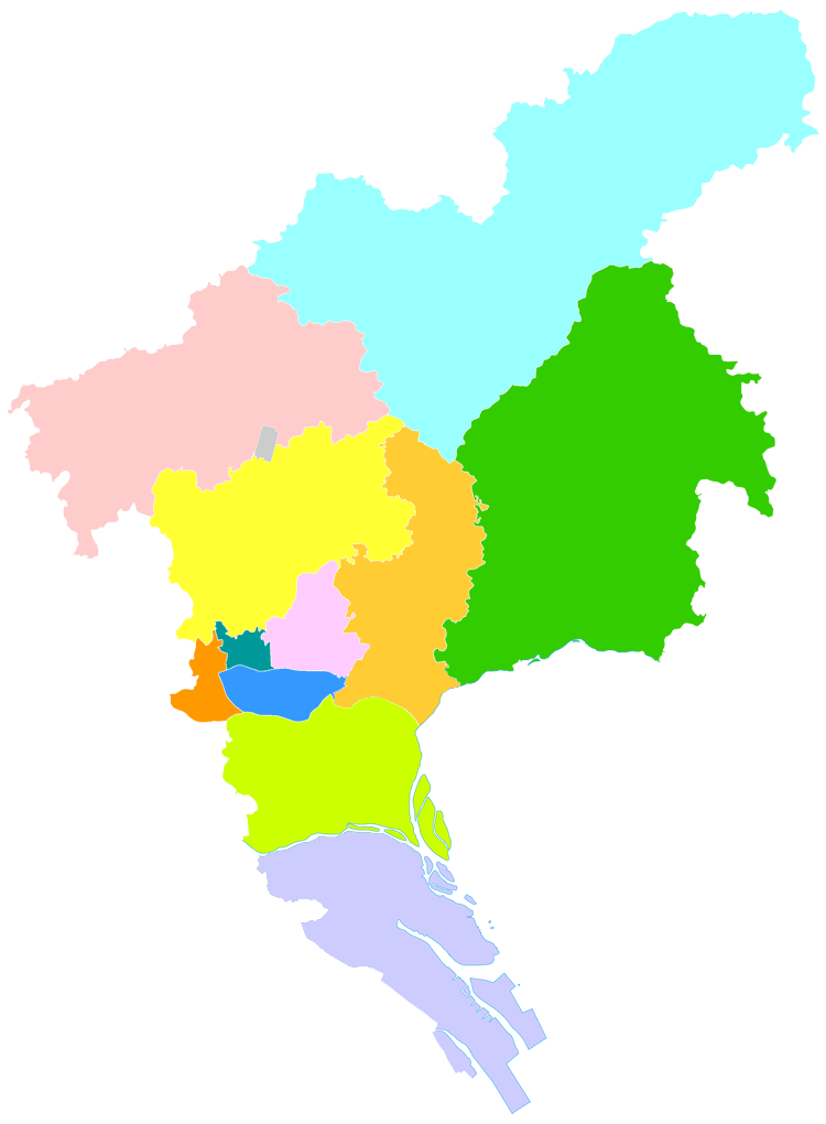 administrative division of Guangzhou City, Guangdong, China